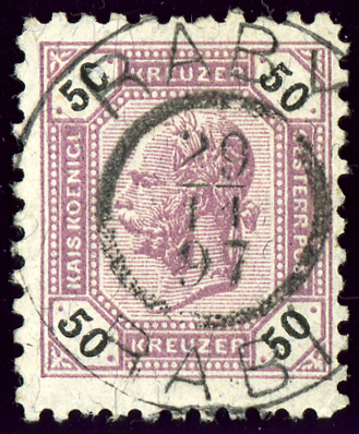 Austrian KK 50 kreuzer stamp, issue 1891, cancelled bilingual at RABY - RABÍ in 1897, Bohemia (okres Klatovy) - Klein type gDj 25 Points